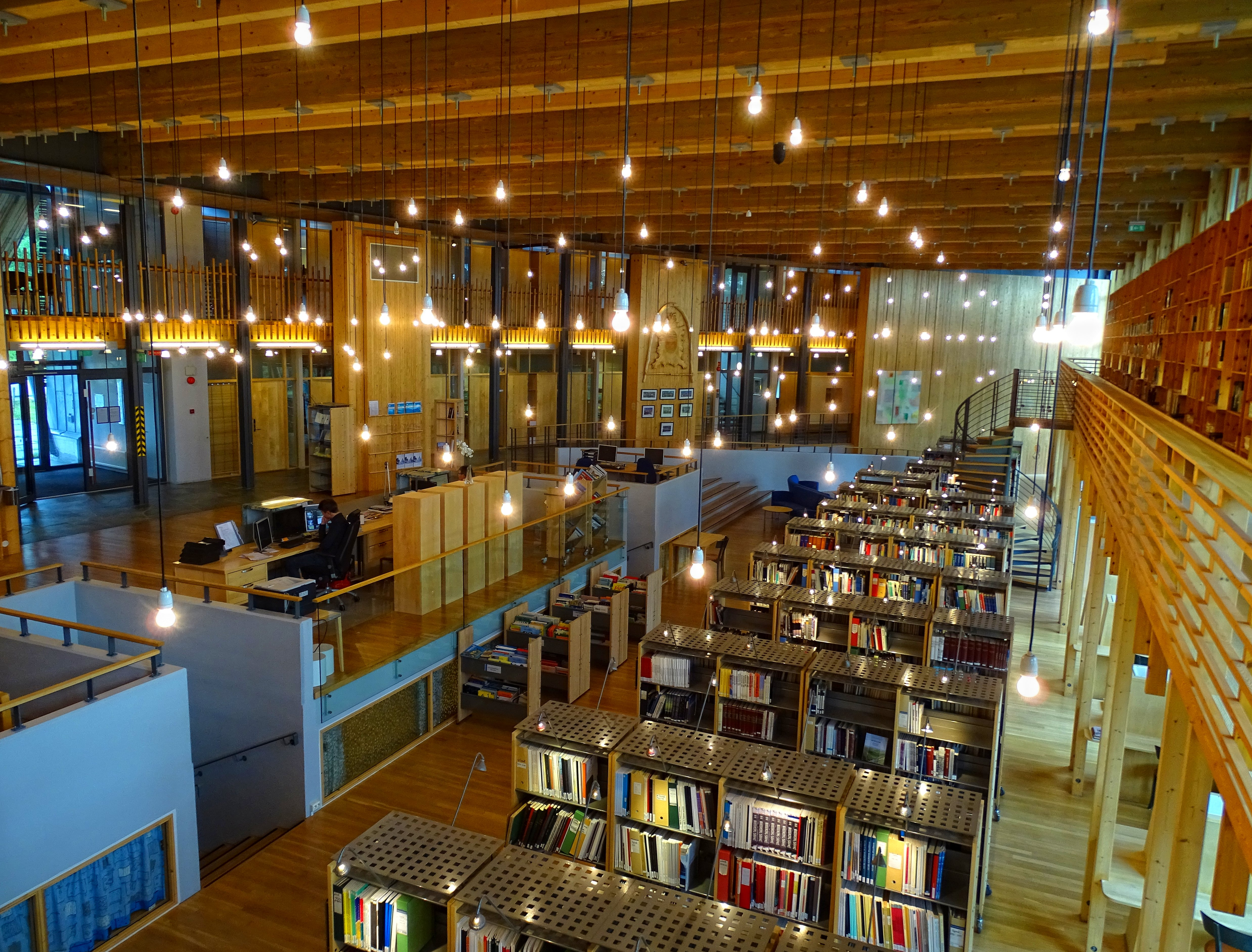 The interior of the library in the Sami Parliament complex during daytime opening hours in July.